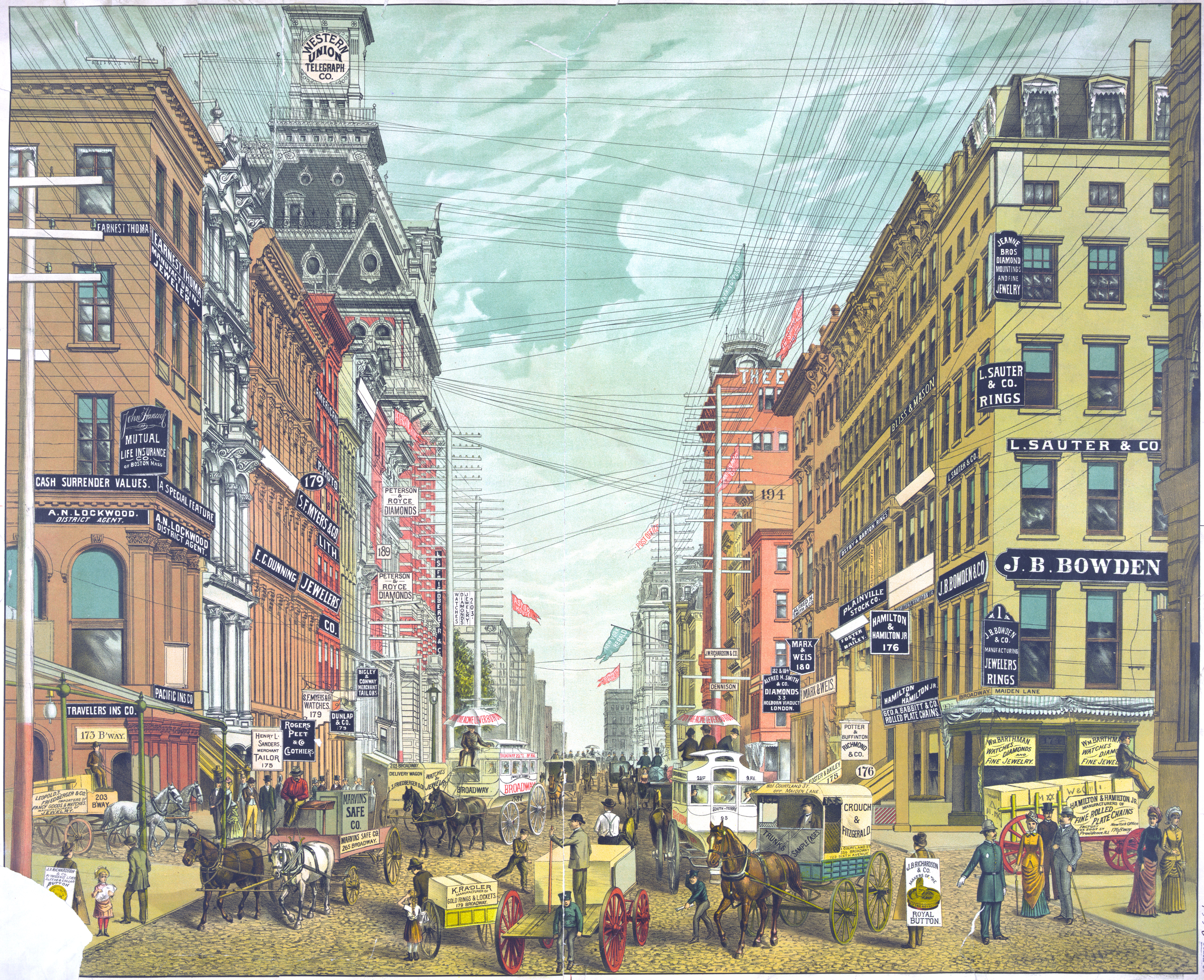 View of Broadway, north from Cortlandt and Maiden Lane, New York City, c. 1885–87 D size color photo-lithograph American Photo-Lithography Co. published by James J. Fogerty, New York The image was likely generated to advertise the Broadway commercial district. It depicts telephone and telegraph lines and wires, which had begun in lower Manhattan in 1878; power lines followed in 1882. Municipal leaders decried the lines and promoted zoning laws that would put the wires (which were sometimes dangerous) underground. The image is an early example of photomechanical printmaking.